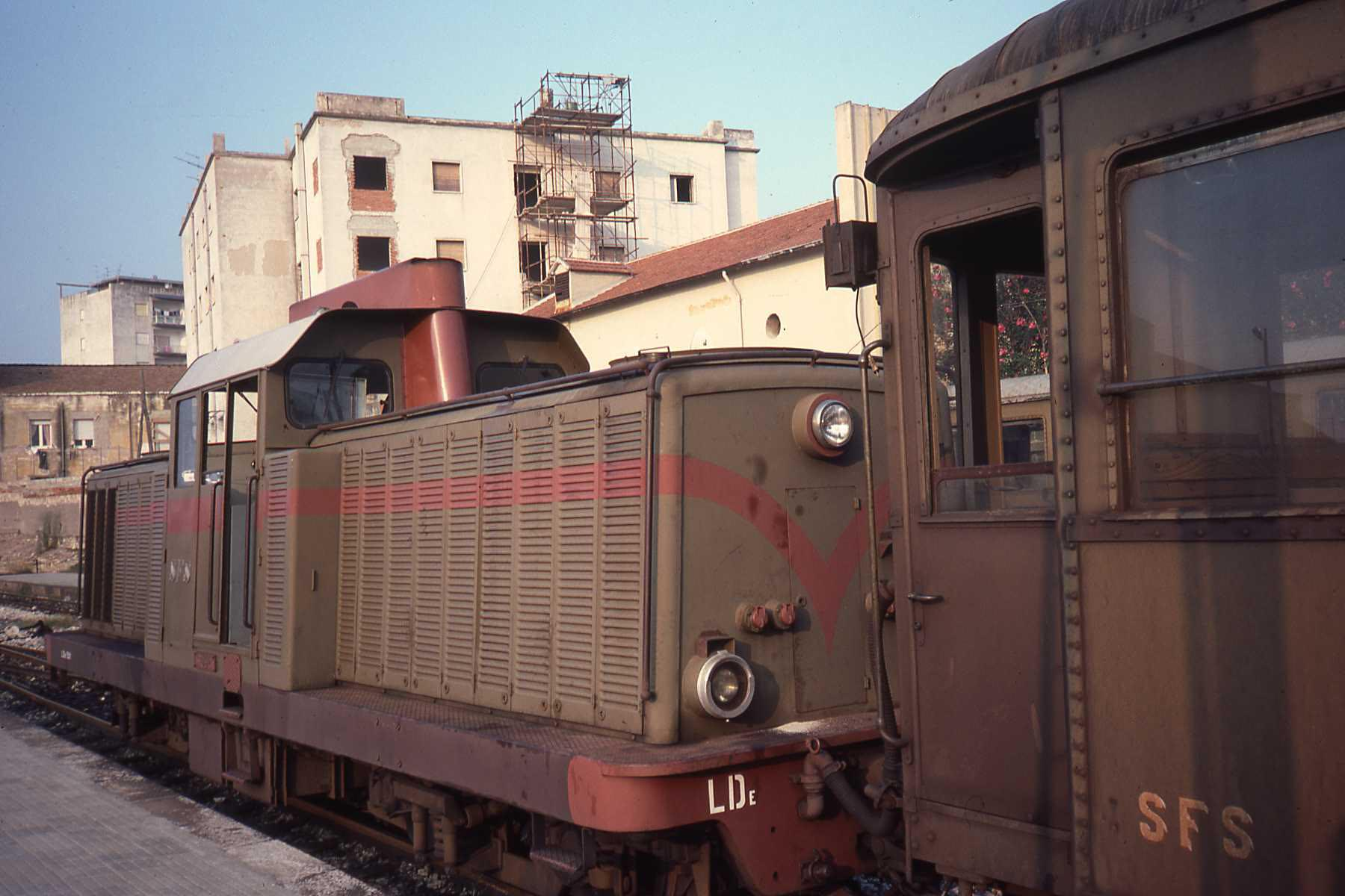 Diesel loc off th FdS pulling coaches in Sassari.